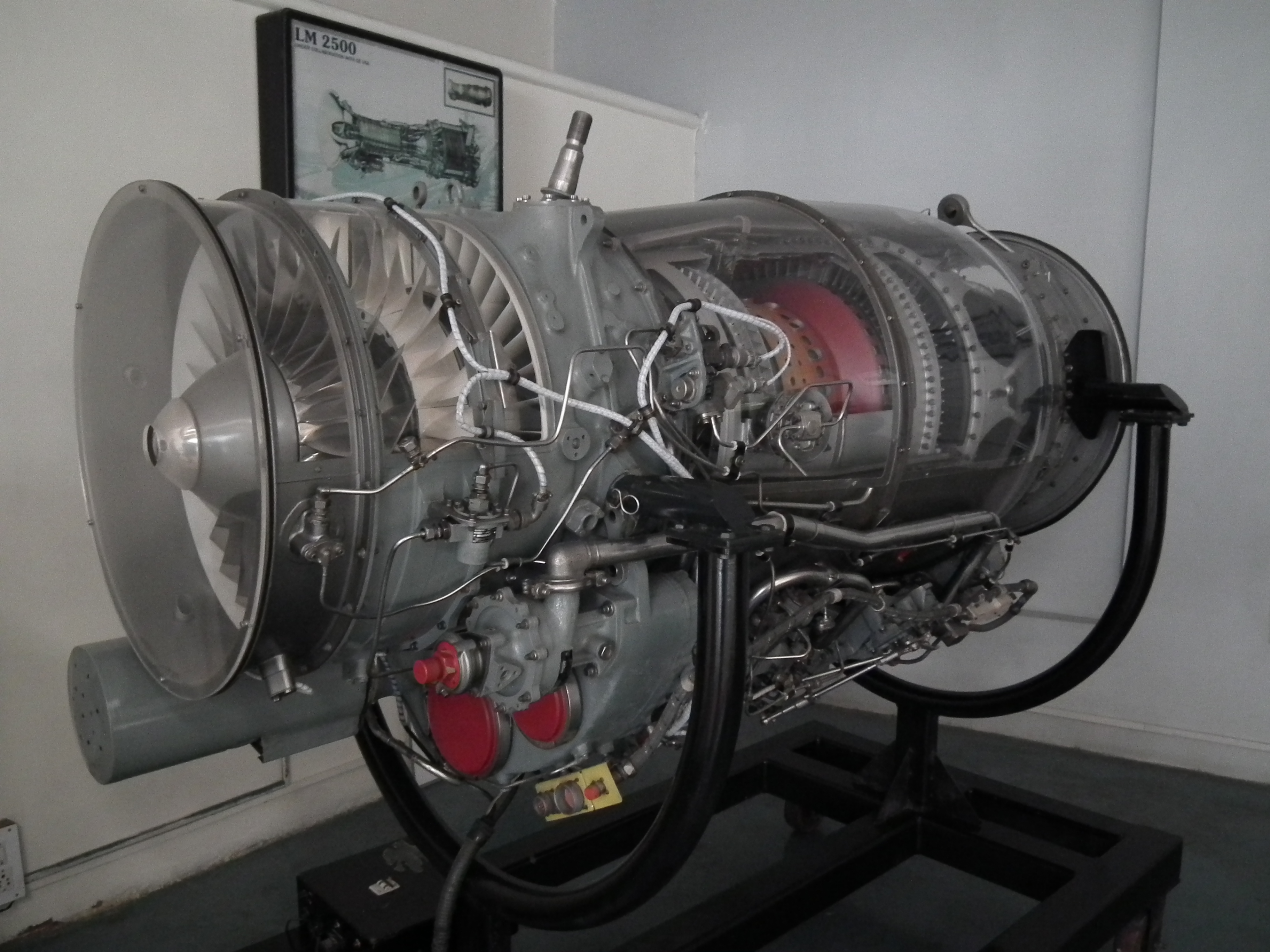 Rolls-Royce Turbomeca Adour Mk811 displayed at HAL Museum.